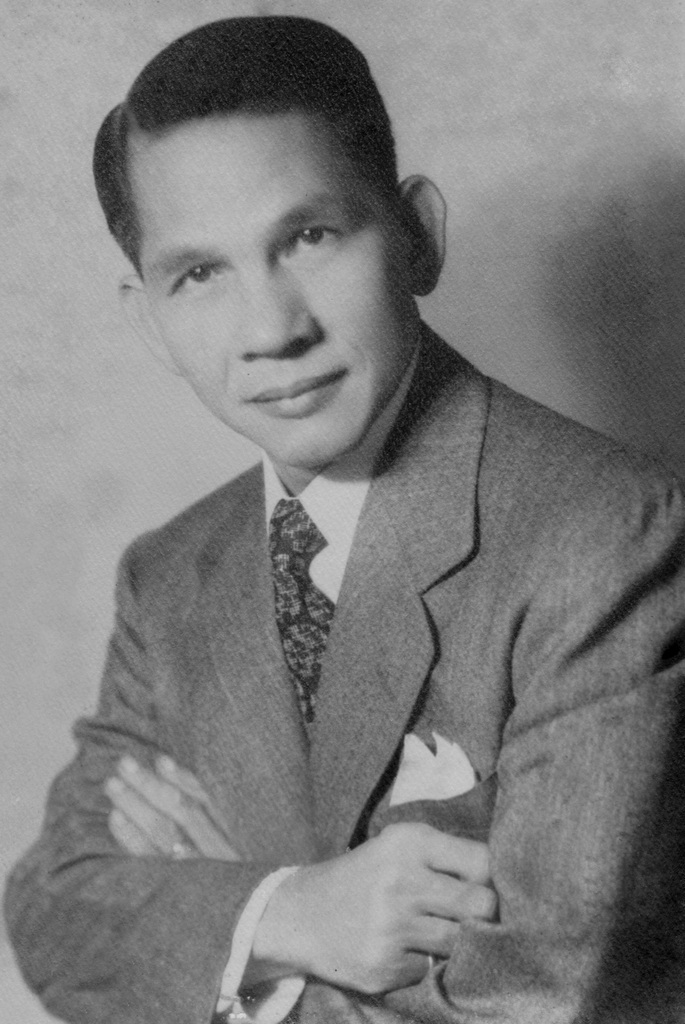 Philippine Senator Jose J. Roy photo